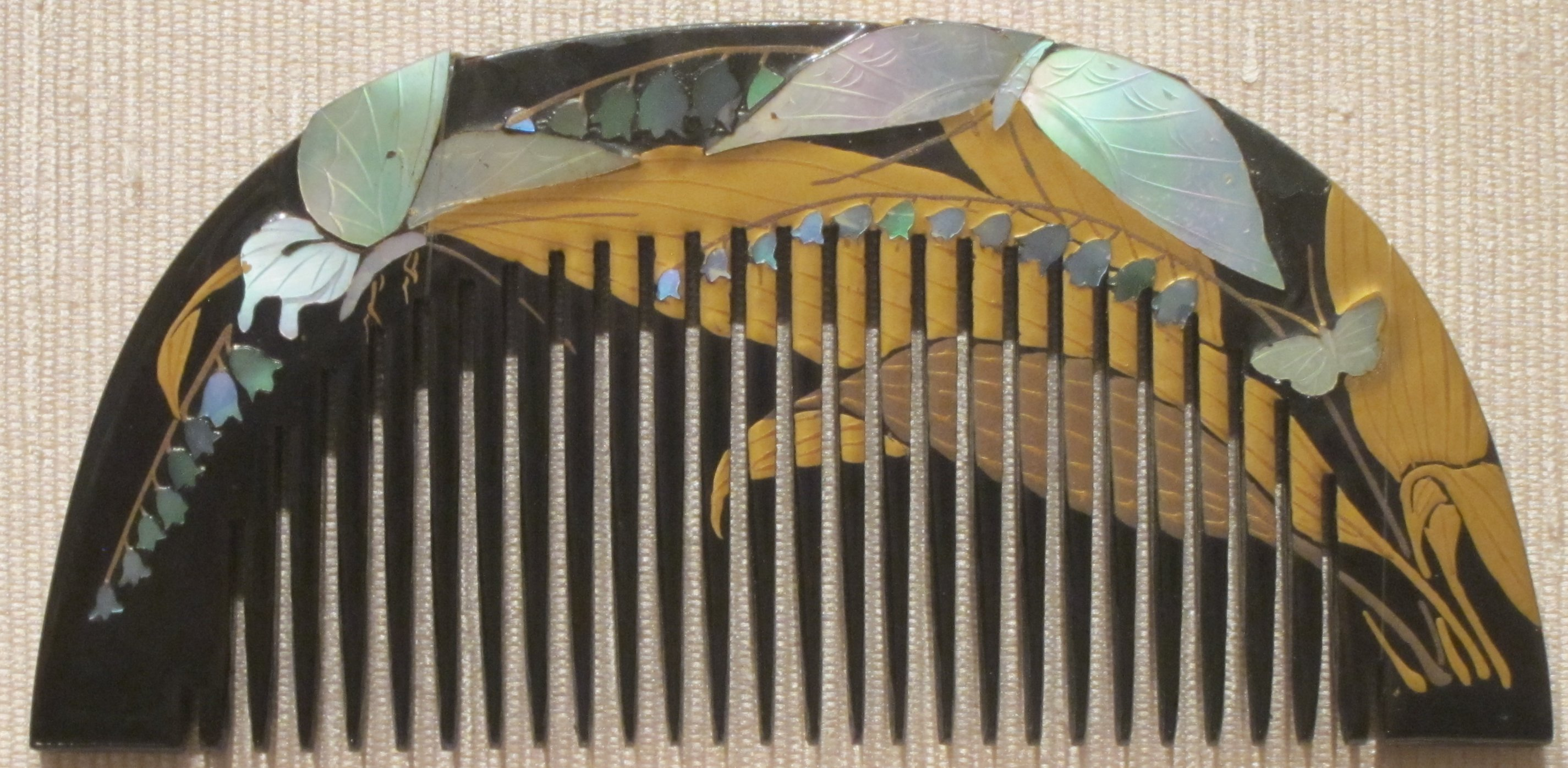 Ornamental Japanese comb, tortoiseshell with lacquer, Edo or Taishō, Honolulu Museum of Art